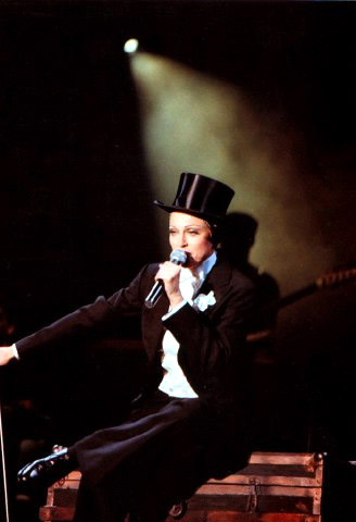 Photo taken during one of the concerts in 1993